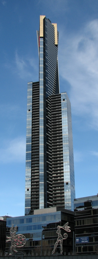 Eureka Tower, Melbourne, Australia viewed from the north. Photographed and uploaded by Melburnian, July 2006.